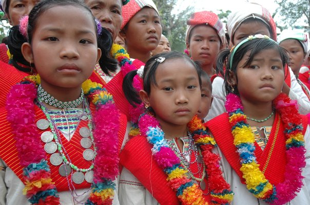 Hilly Children-Rangamati.